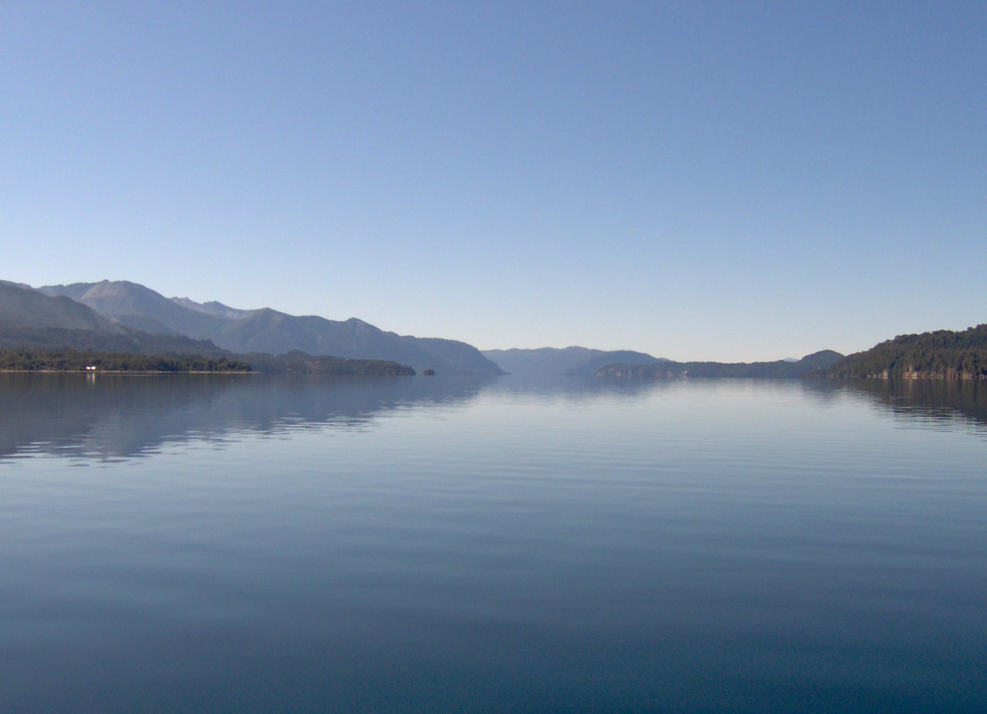 The Nahuel Huapi lake in a very calm day. Patagonia, Argentina